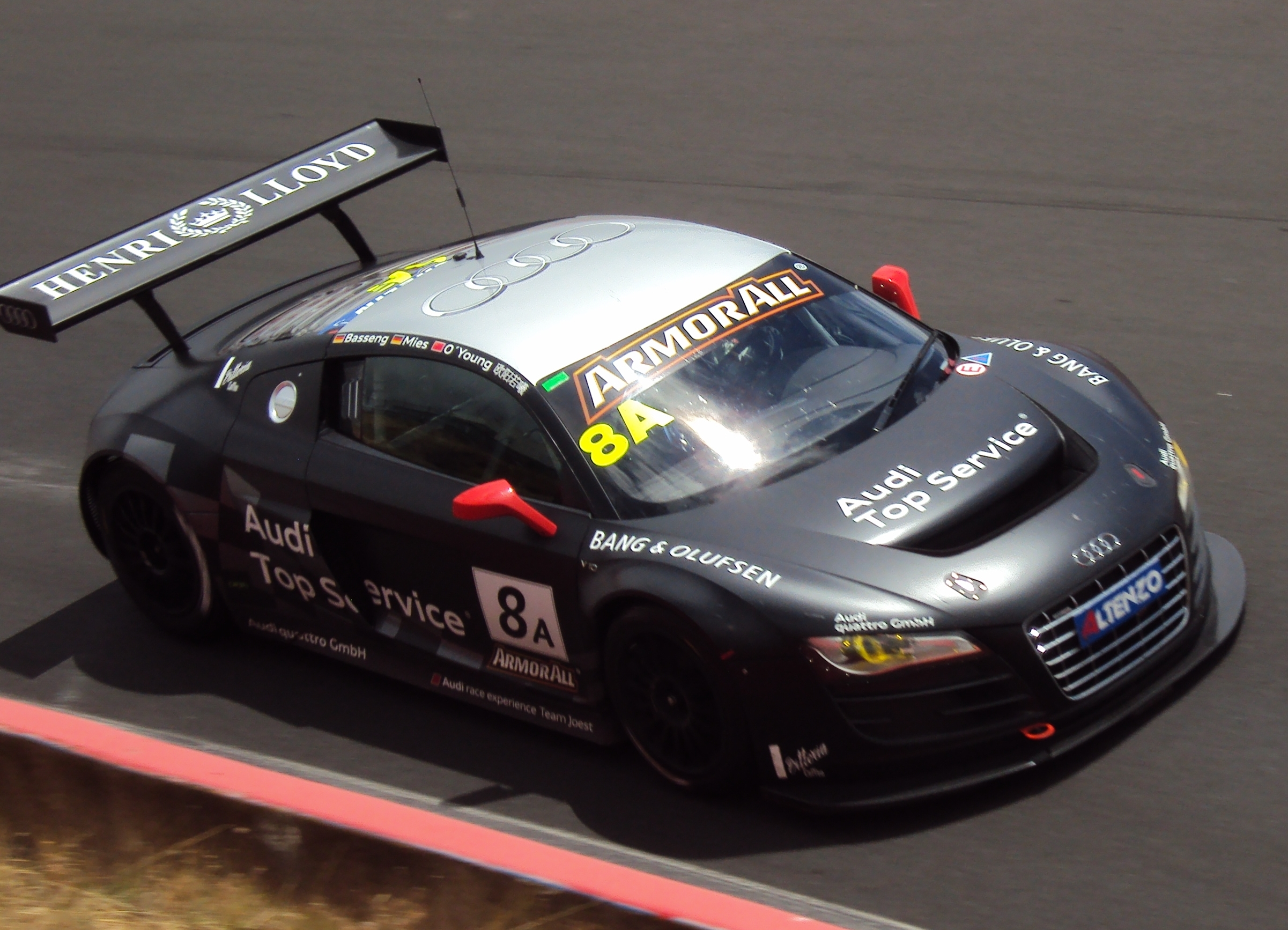 The winner of the 2011 Bathurst 12 Hour, an Audi R8 GT3 LMS entered by Joest Racing and driven by Marc Basseng, Christopher Mies and Darryl O'Young